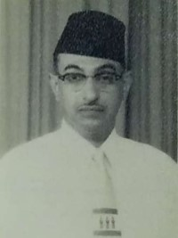 Portrait of Abdurrahman Sjihab as a member of the Constituent Assembly of the Republic of Indonesia (9 November 1956 - 5 July 1959)